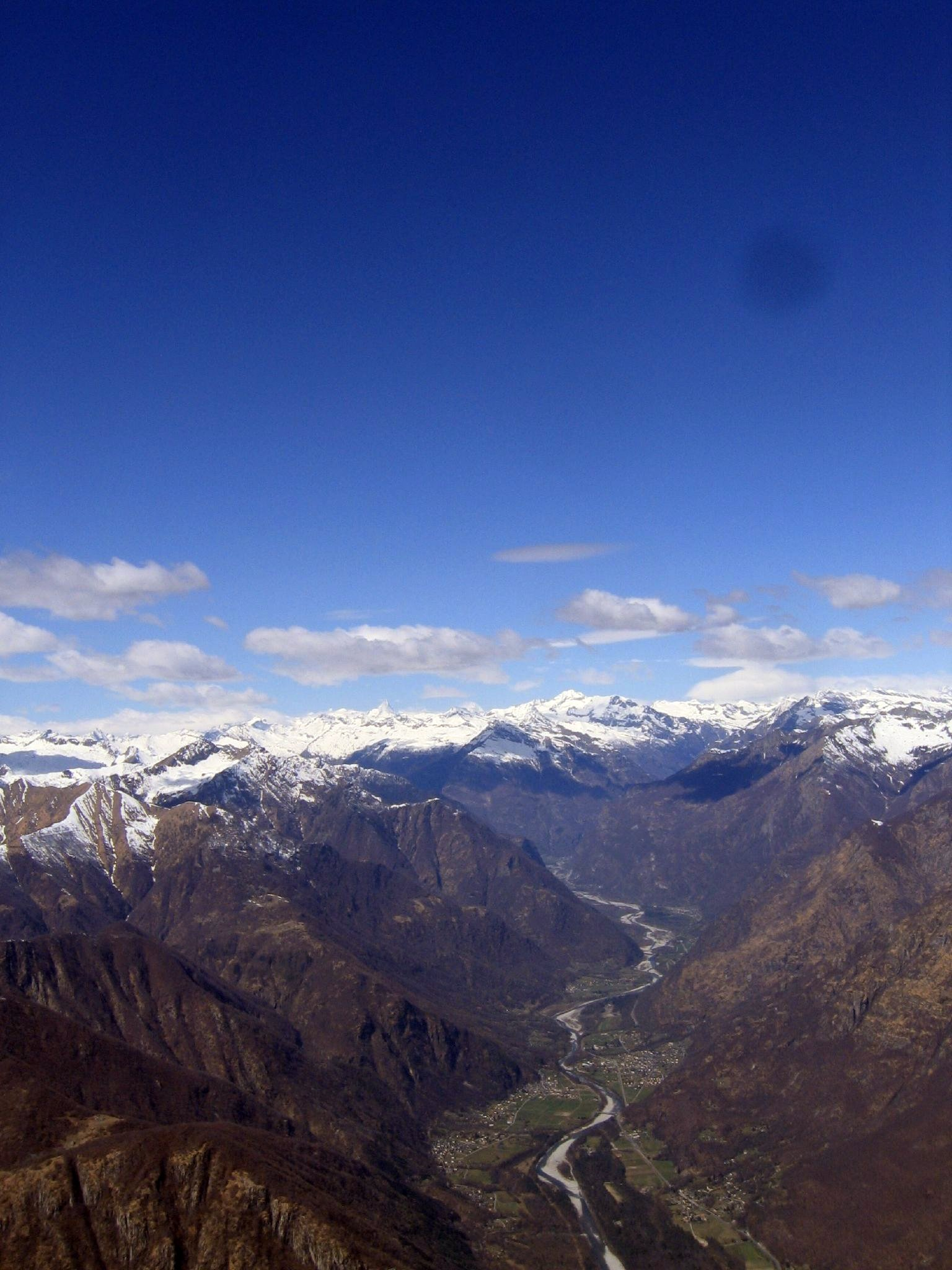 Valle Maggia in Ticino, Switzerland. Gordevio is in the foreground on the right side of the Maggia river, with Maggia in the center, also on the right side.